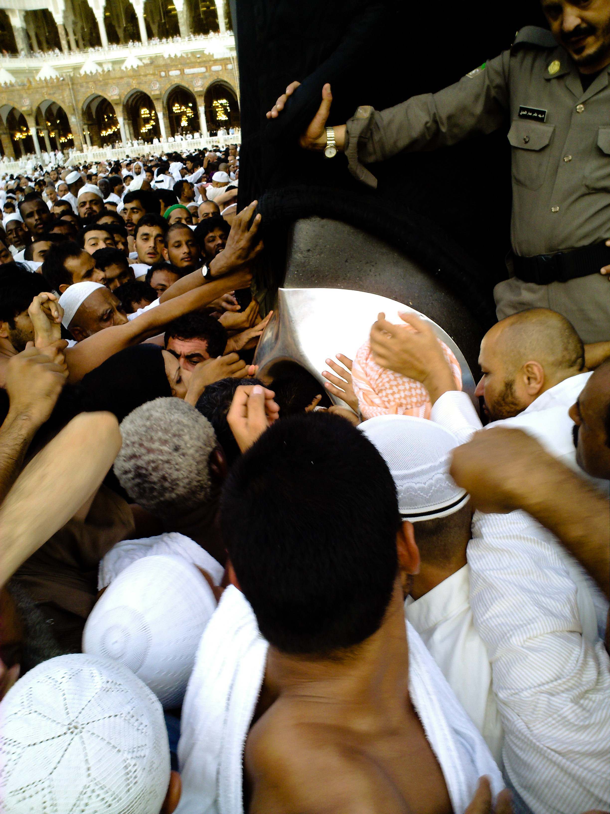 Muslims jostle for a chance to touch the black stone embedded in the eastern corner of the Kaaba.